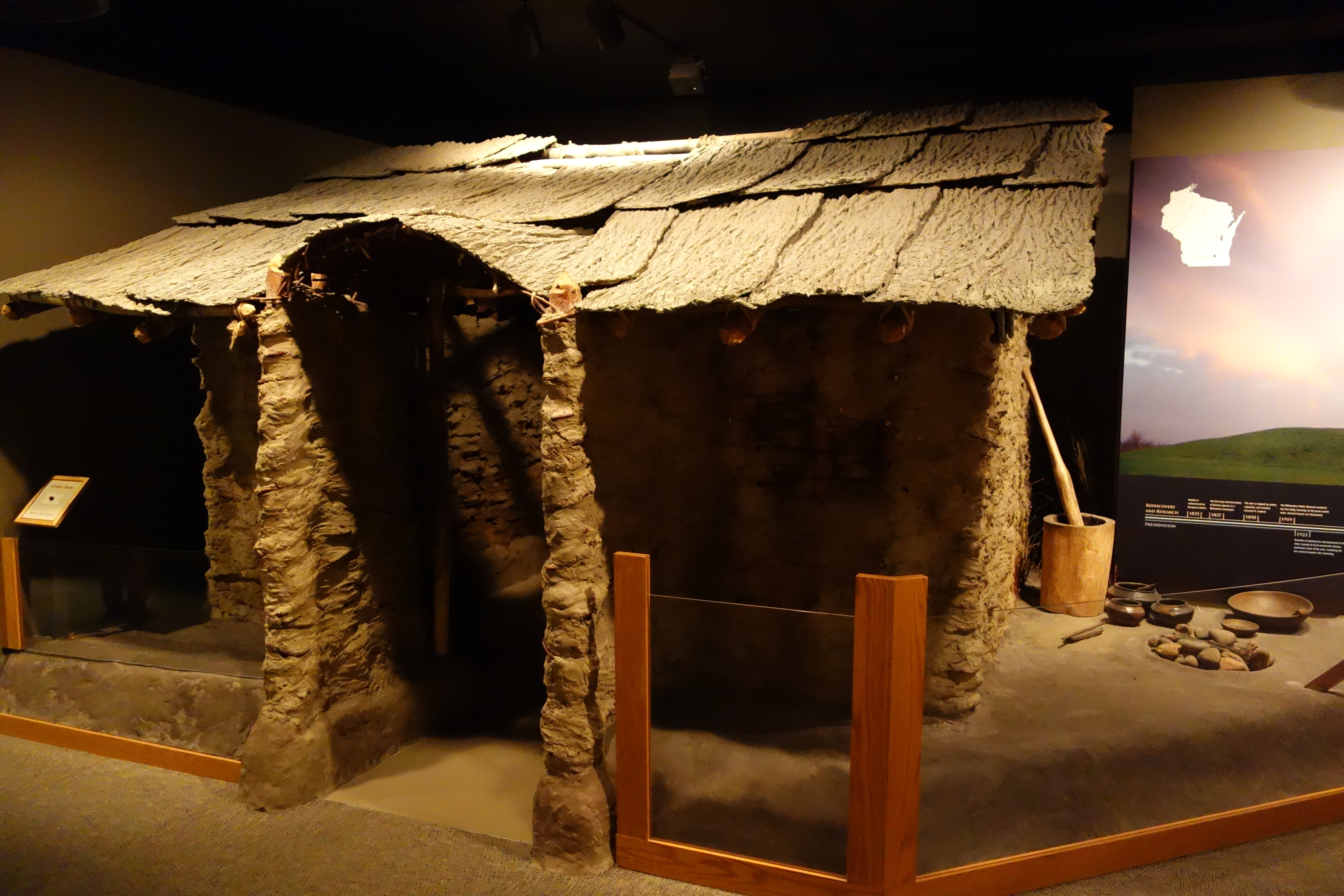 Replica of house built over 1000 years ago and discovered at Aztalan on the Crawfish River. Exhibit in the Wisconsin Historical Museum, Madison, Wisconsin, USA. This item is old enough so that it is in the public domain.